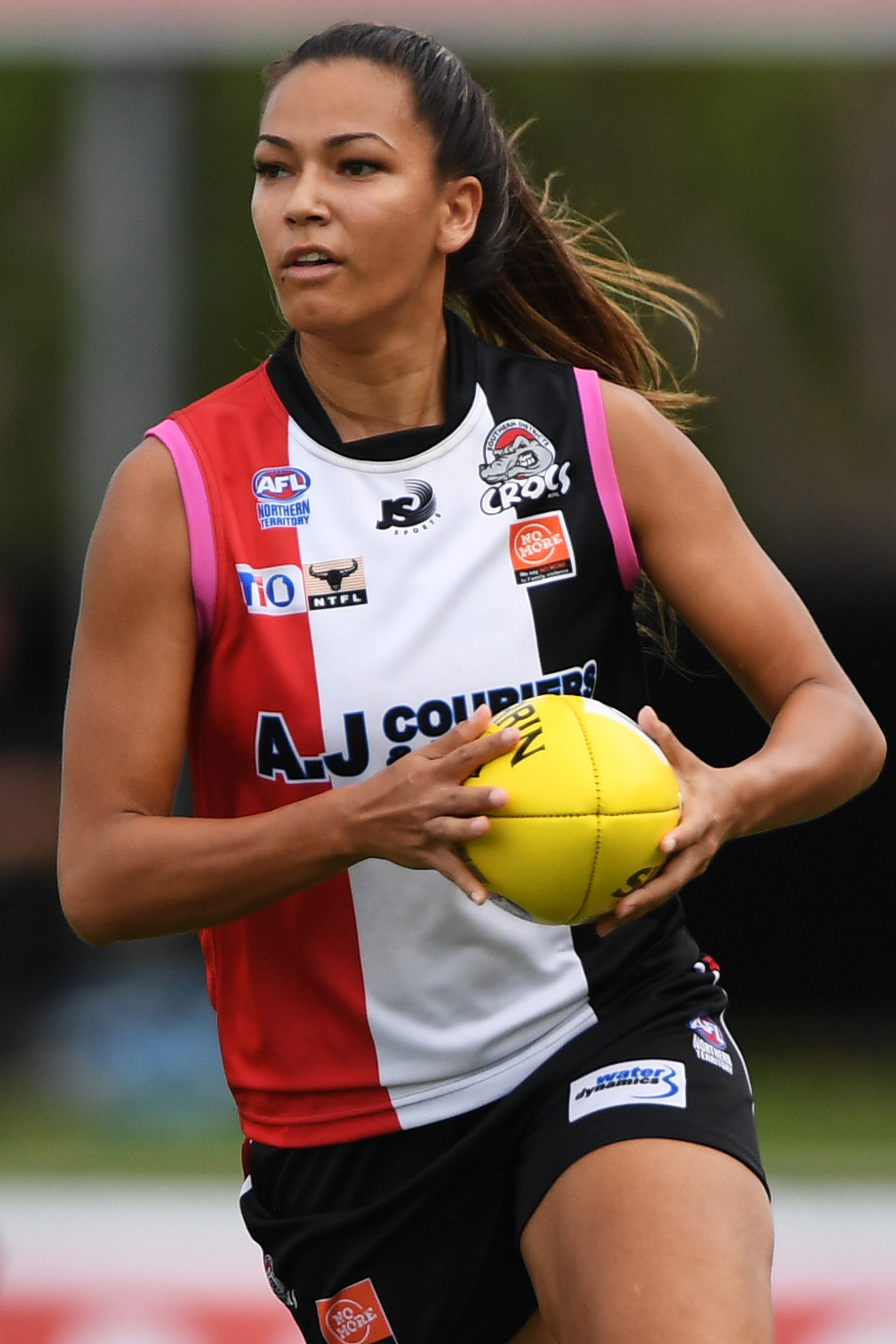 Tayla Thorn of Southern Districts during the 2019 NTFL round 9 match between Southern Districts and St Mary's at TIO Stadium on 30 November 2019 in Darwin, Northern Territory.